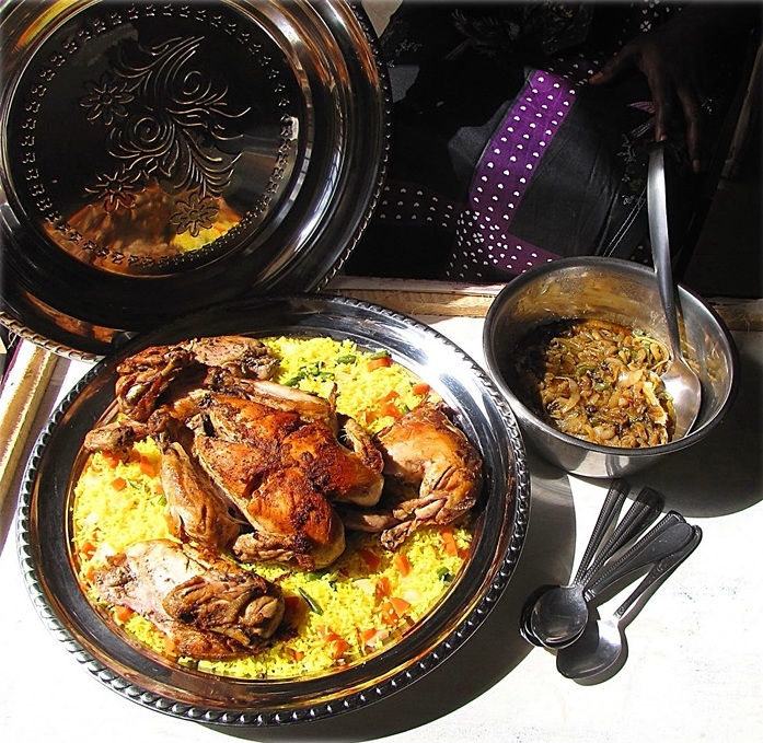 A chicken and rice dish with a distinctive onion sauce. Traditionally eaten from a communal platter, with the onion sauce spooned on top of the rice just before eating. Many variations.